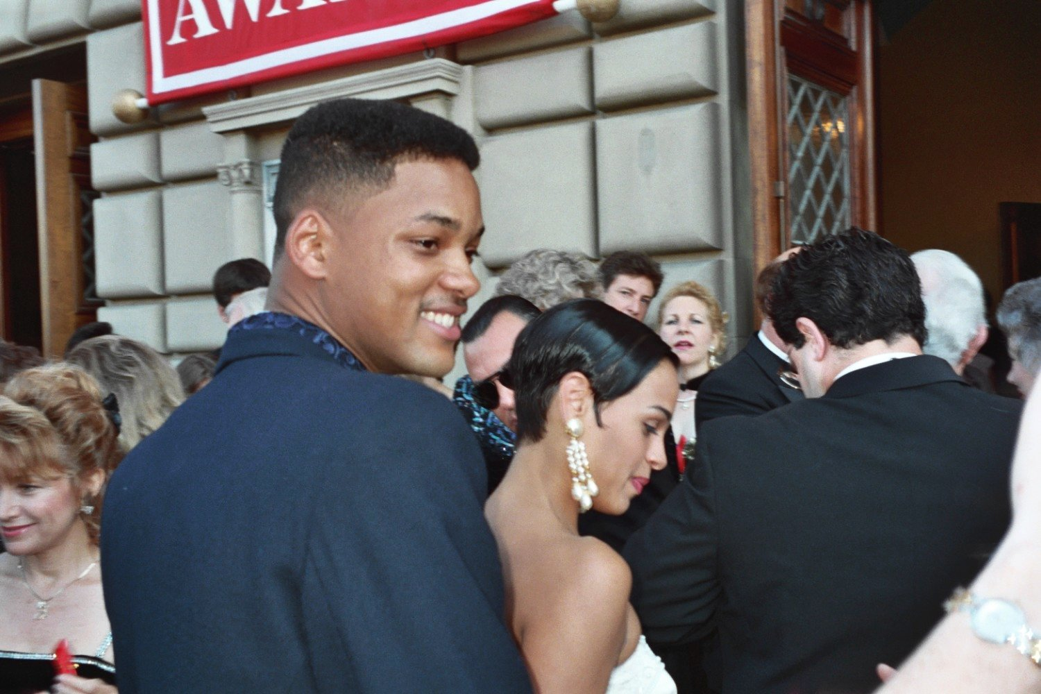 1993 Emmy Awards NOTE: Permission granted to copy, publish, broadcast or post any of my photos, but please credit "photo by Alan Light" if you can. Thanks. Scanned from the original 35MM film negative.